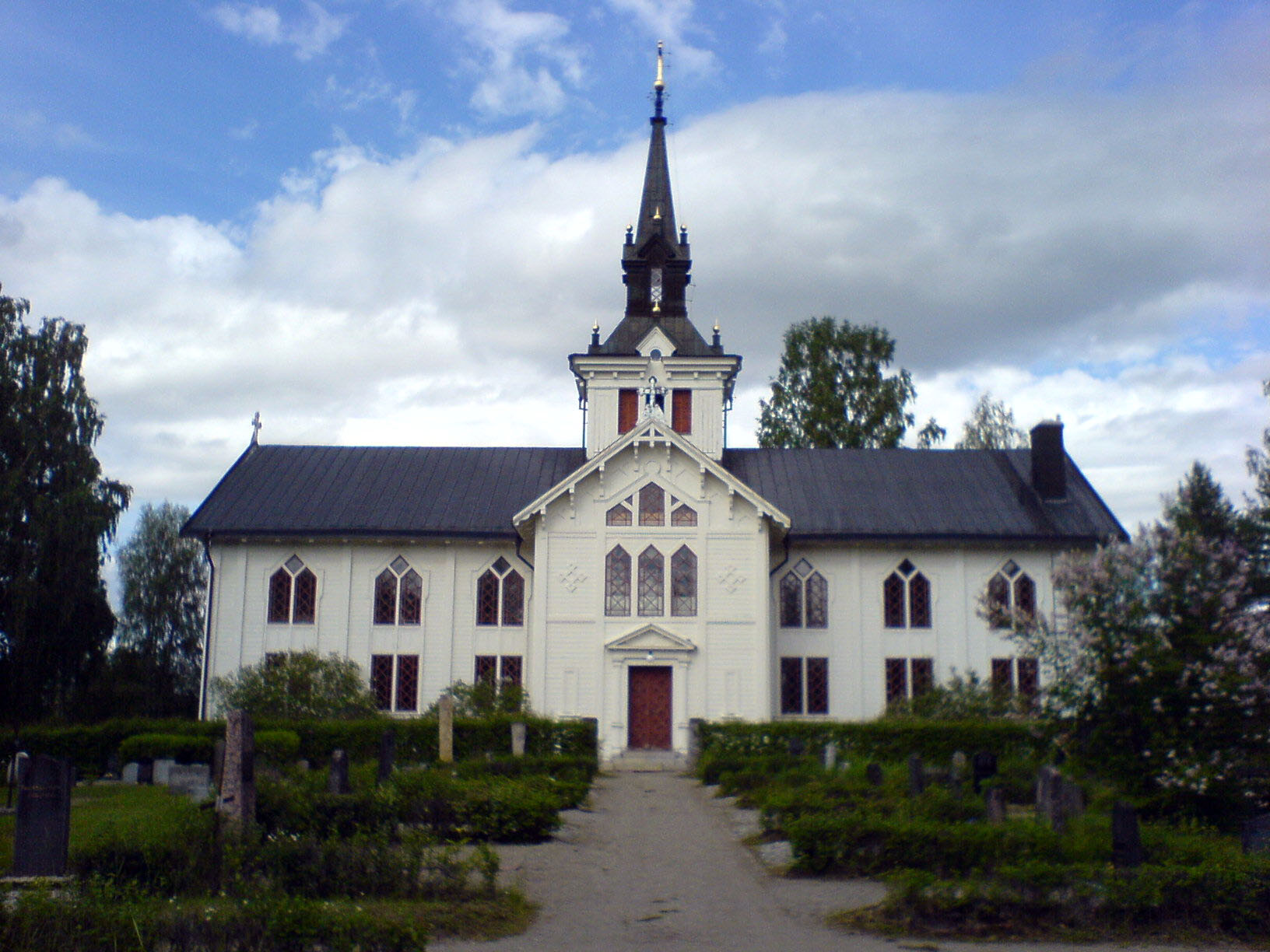 Bodums church in Rossön, Jämtlands County, Sweden